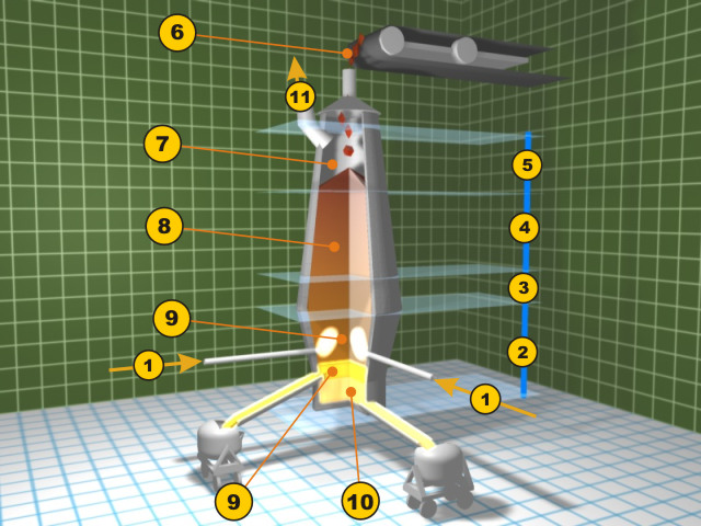 Blast furnace diagram1. Hot blast from Cowper stoves 2. Melting zone3. Reduction zone of ferrous oxide 4. Reduction zone of ferric oxide 5. Pre-heating zone6. Feed of ore, limestone and coke 7. Exhaust gases 8. Column of ore, coke and limestone 9. Removal of slag 10. Tapping of molten pig iron 11. Collection of waste gases